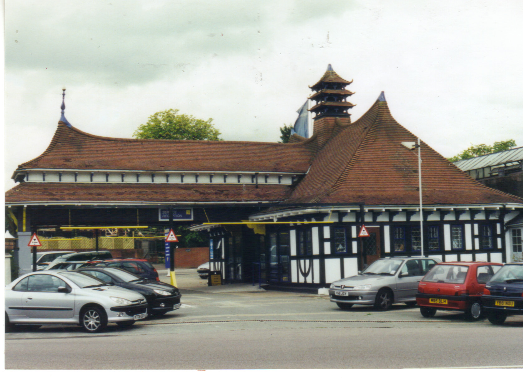 The famous building in Beckenham, I saw it on TV and had to visit in person.